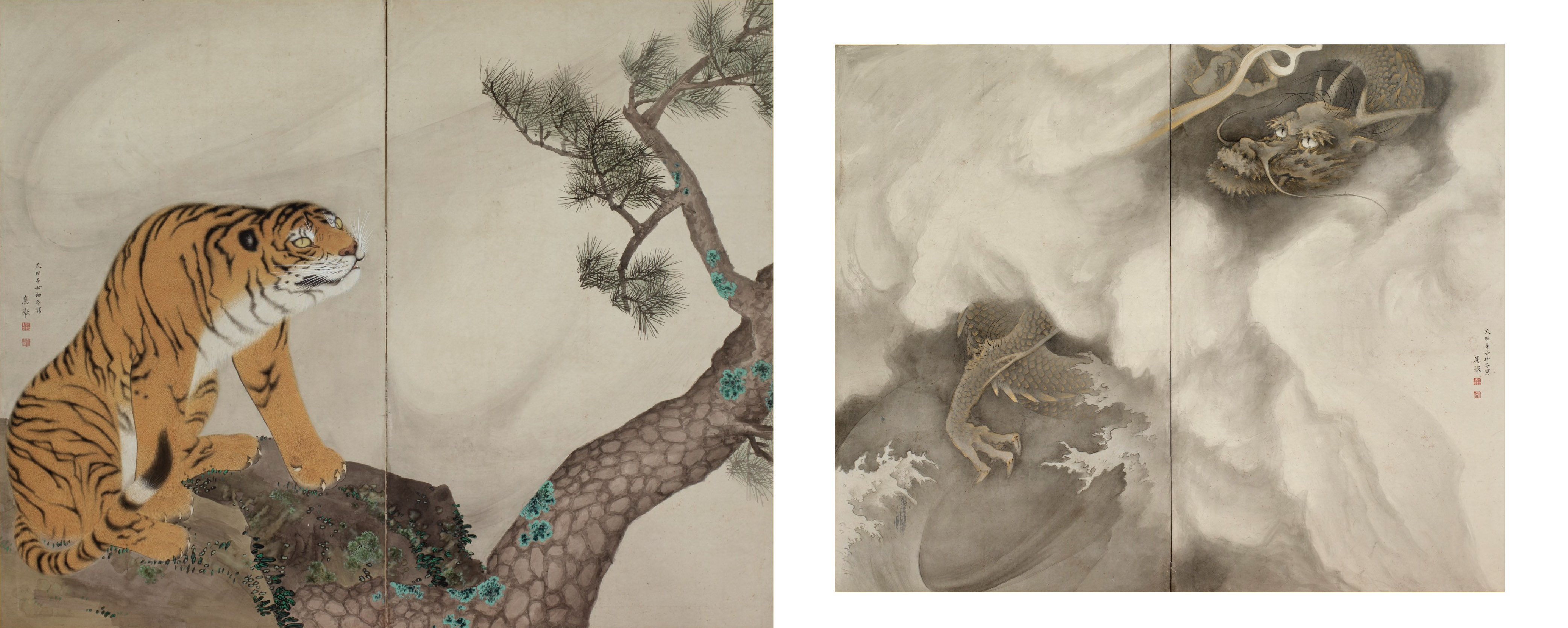 Maruyama Okyo, Japanese, 1733-1795. Byobu. Tiger and Dragon: "Tiger" (left). Two panel folding screen. Overall (fully open) each: 66 1/8 × 74 inches (168 × 188 cm), ink and color paint on paper